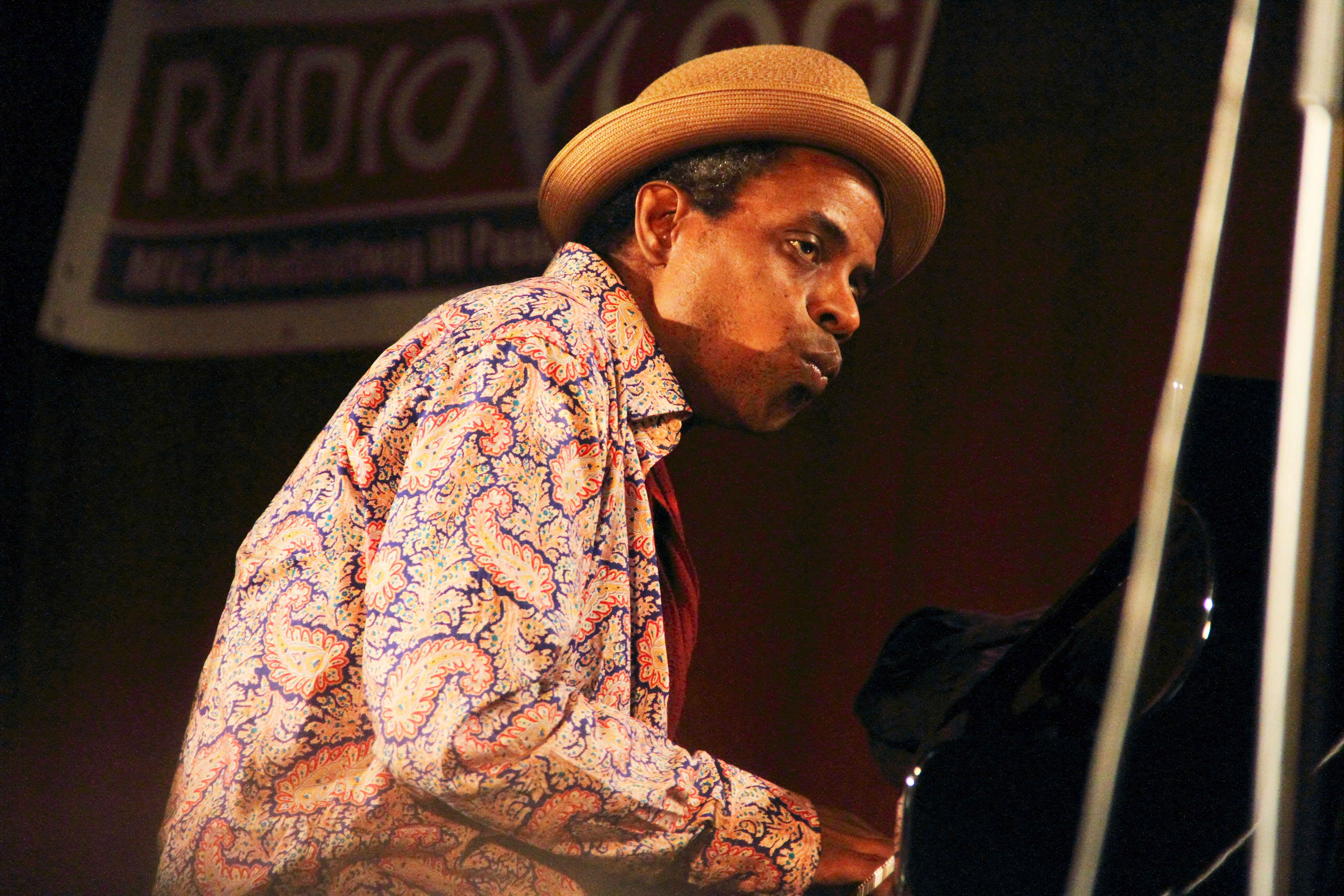 David Murray & Class Struggle at INNtöne Jazzfestival 2018.